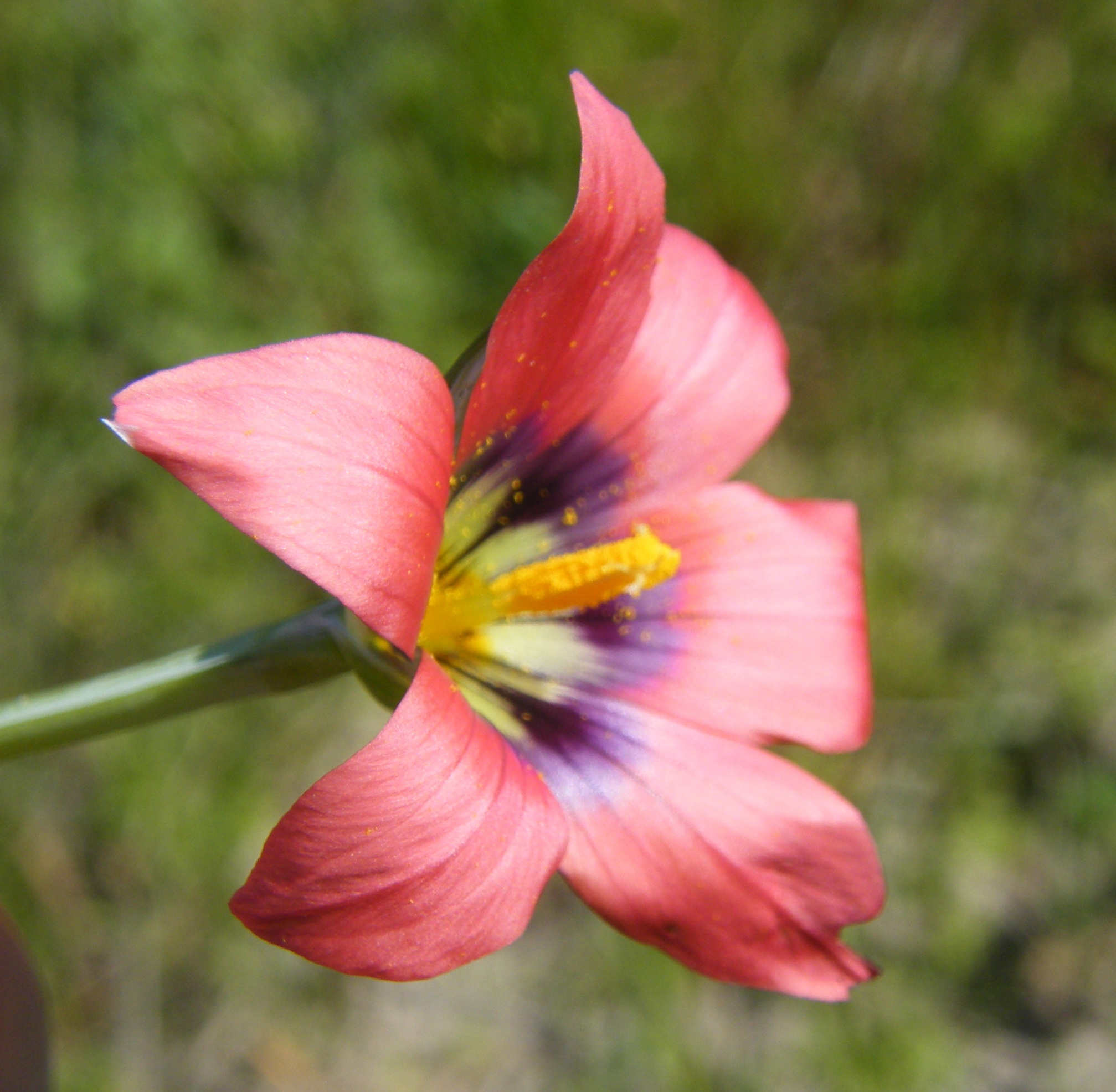 Striped back and dry sheath.